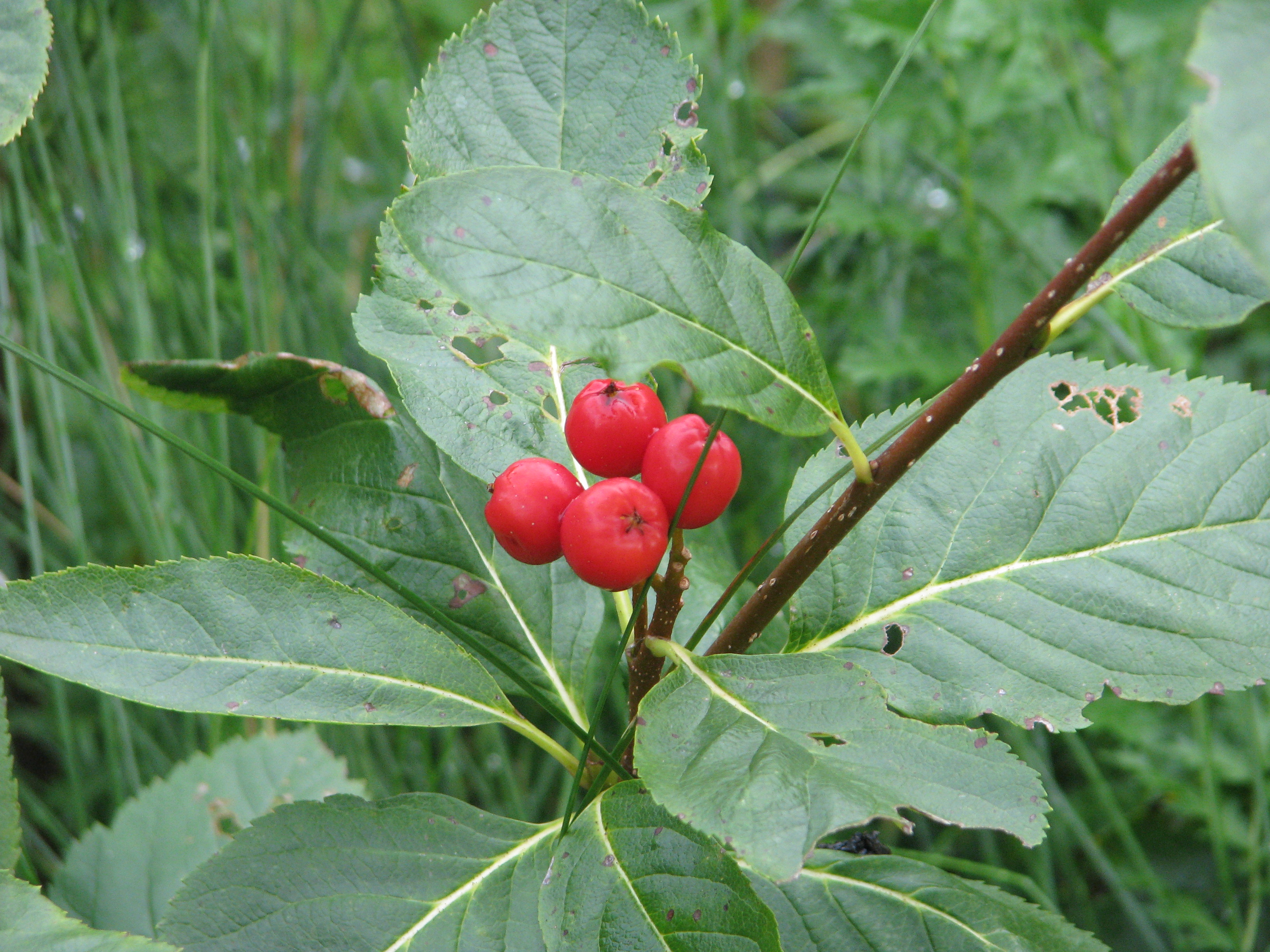 Nice chunky fruits. They don't taste of much though.